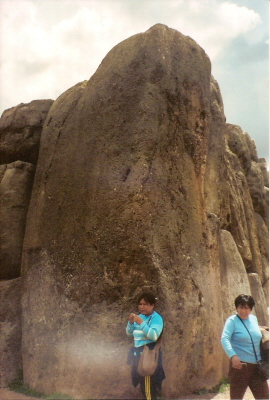 I took this photo myself at Saqsaywaman when I took a guided tour. It is also posted on my website, I have no desire to make money off of it, so I release it to the public domain.